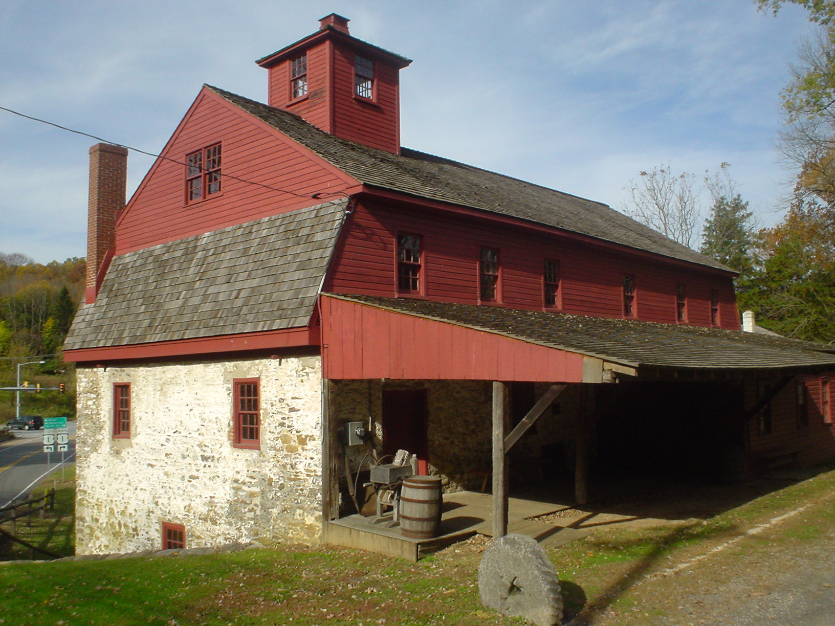 The Newlin Mill near Concordville, PA. On NRHP Southwest view. This is my own work and I donate it to the public domain.